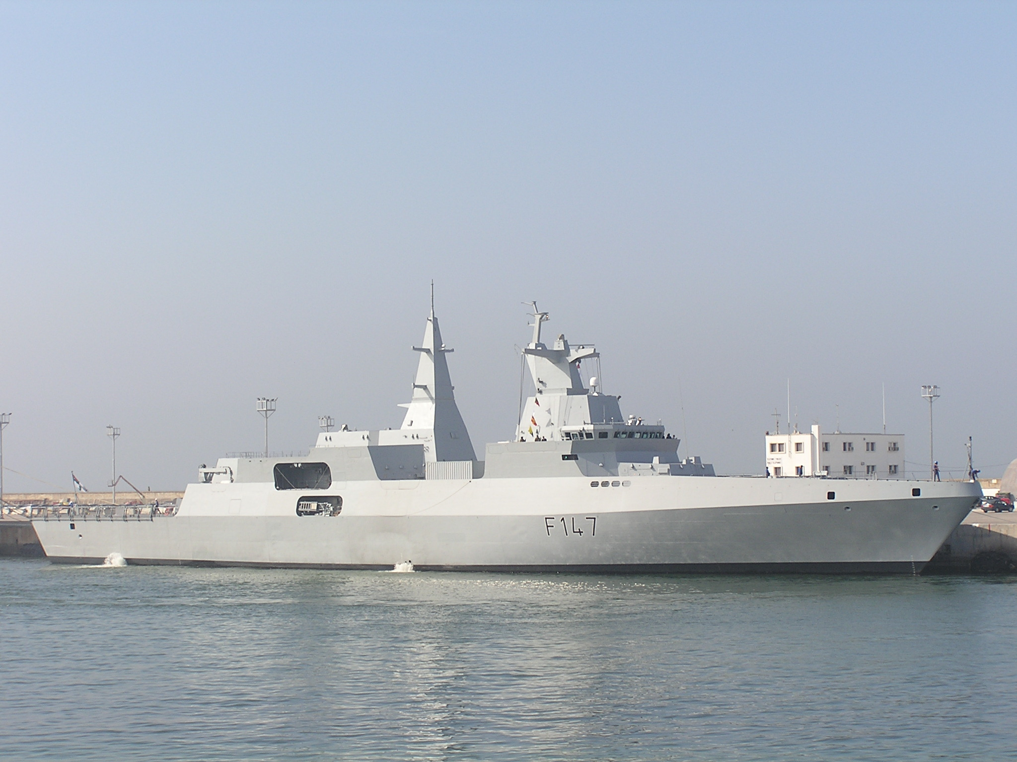 Frigate Spioenkop in th port of Rota